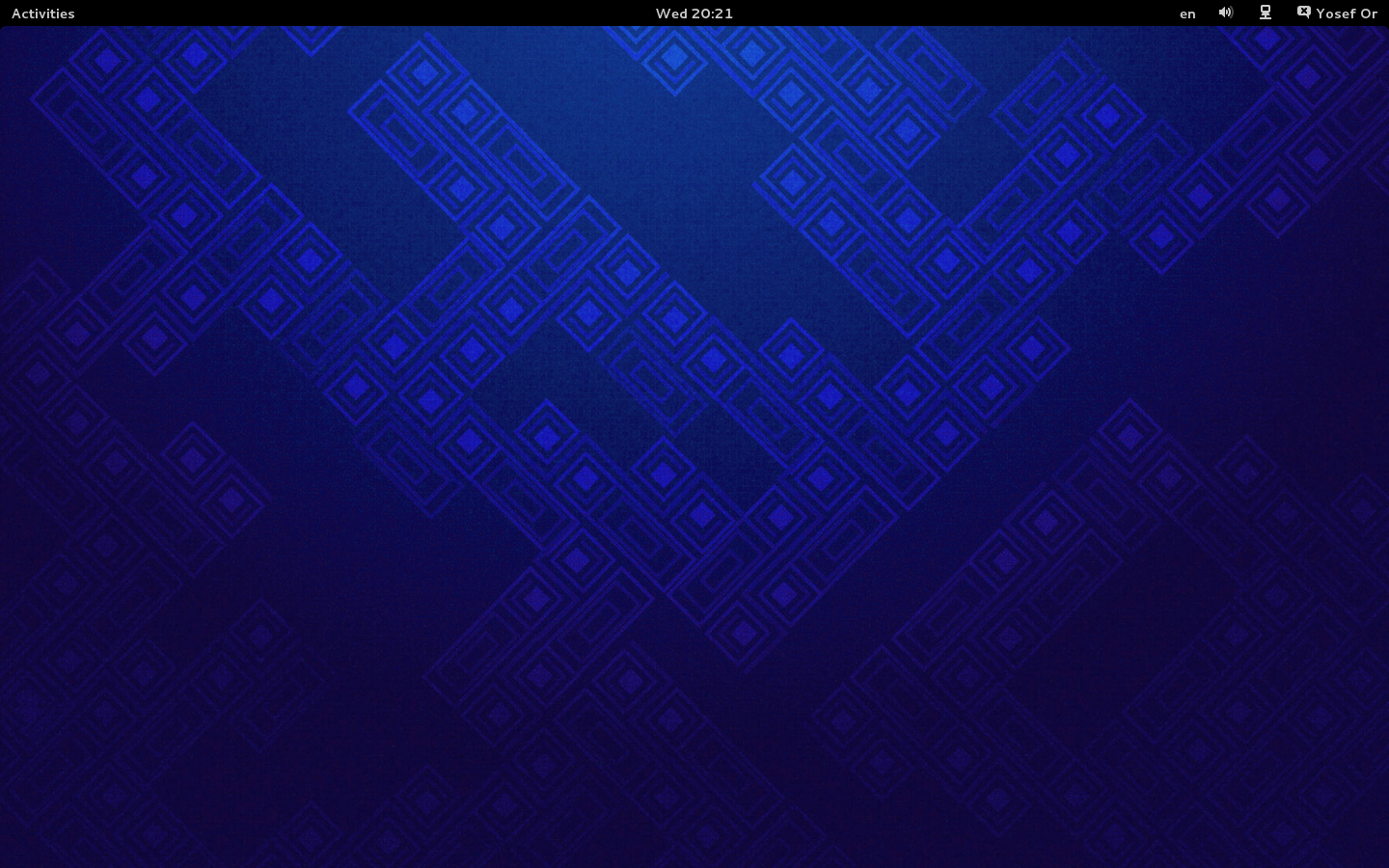 Fedora 19 with GNOME (English)